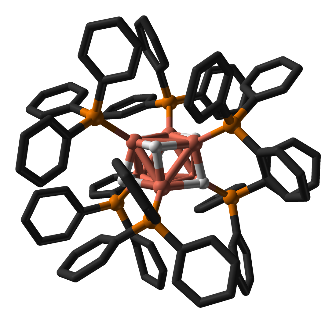 Ball-and-stick model of Stryker's reagent (AKA Osborn's complex), [(PPh3)CuH]6. X-ray diffraction data from Inorg. Chem. (1989) 28, 1300-1306. Model constructed in CrystalMaker 8.1. Image generated in Accelrys DS Visualizer.